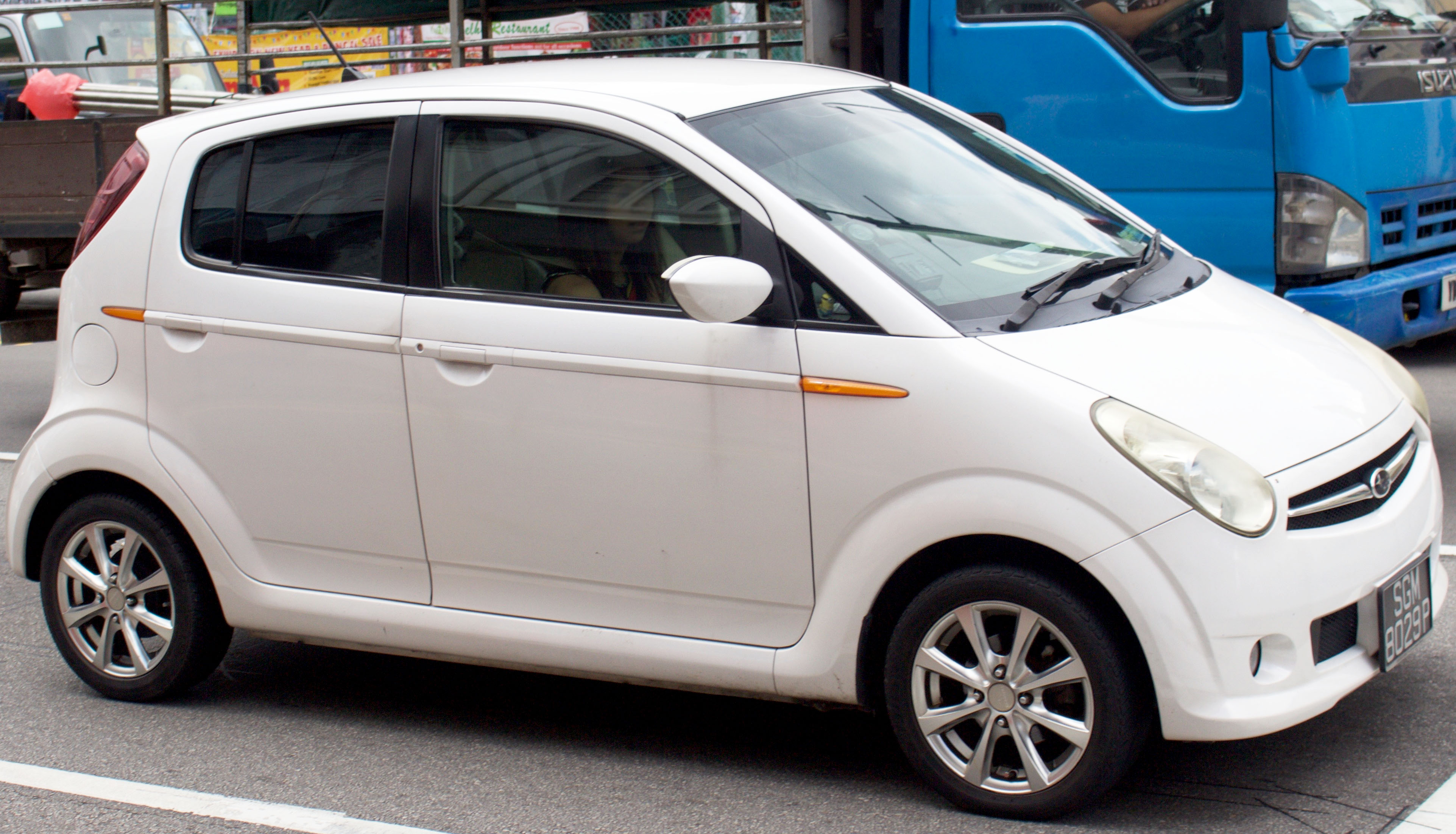 2006 Subaru R2 Facelift, photographed in Singapore. Vehicle registration enquiry resultsJurisdictionSingaporeRegistrationSGM8029PChassis codeRC1089648Engine codeEN07223324Year of manufacture2006